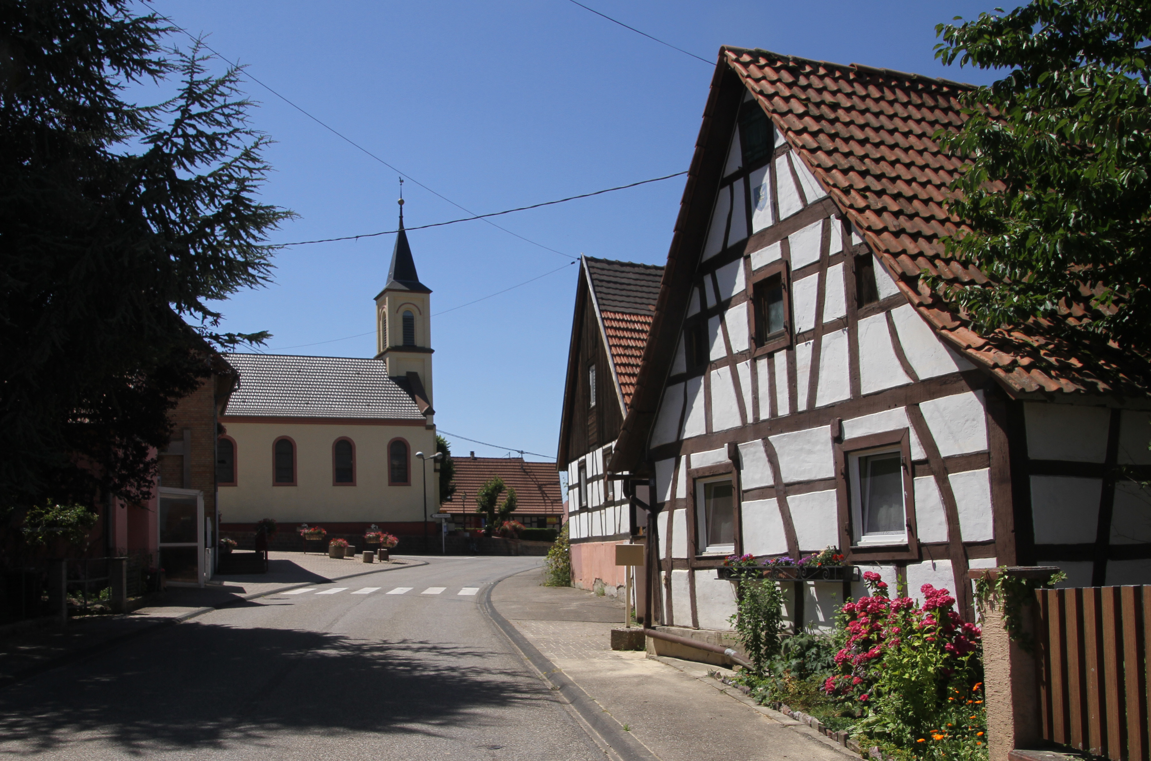 Croettwiller, Alsace